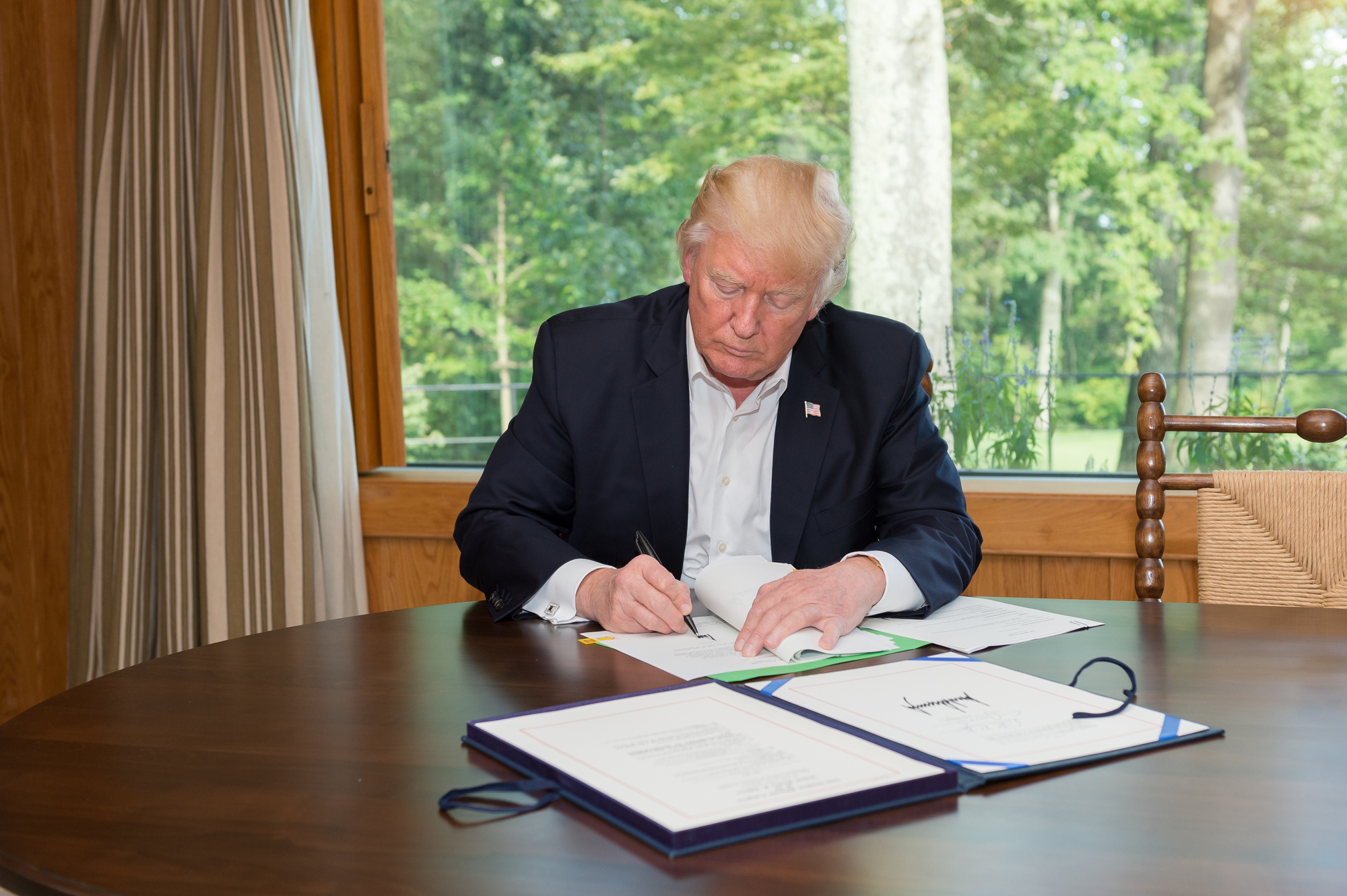 President Donald Trump signs the Hurricane Harvey Funding Bill into effect on September 8, 2017 while at Camp David for the weekend.